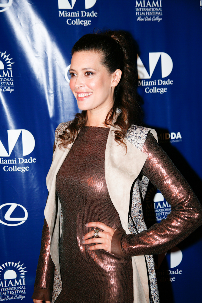 Actress Angie Cepeda at the 2011 Miami International Film Festival